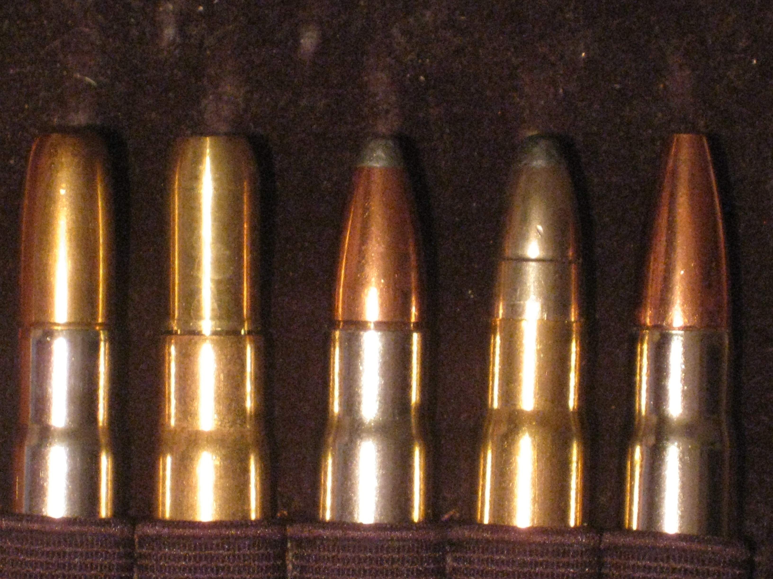 .375 H&H Cartridges with Bullets of 5 Different Types